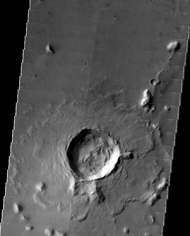 Mosaic showing Nutak crater on Mars. THEMIS VIS mosaic using V26585032EDR and V53294019EDR, acquired on 2007-12-12 and 2013-12-19, respectively.